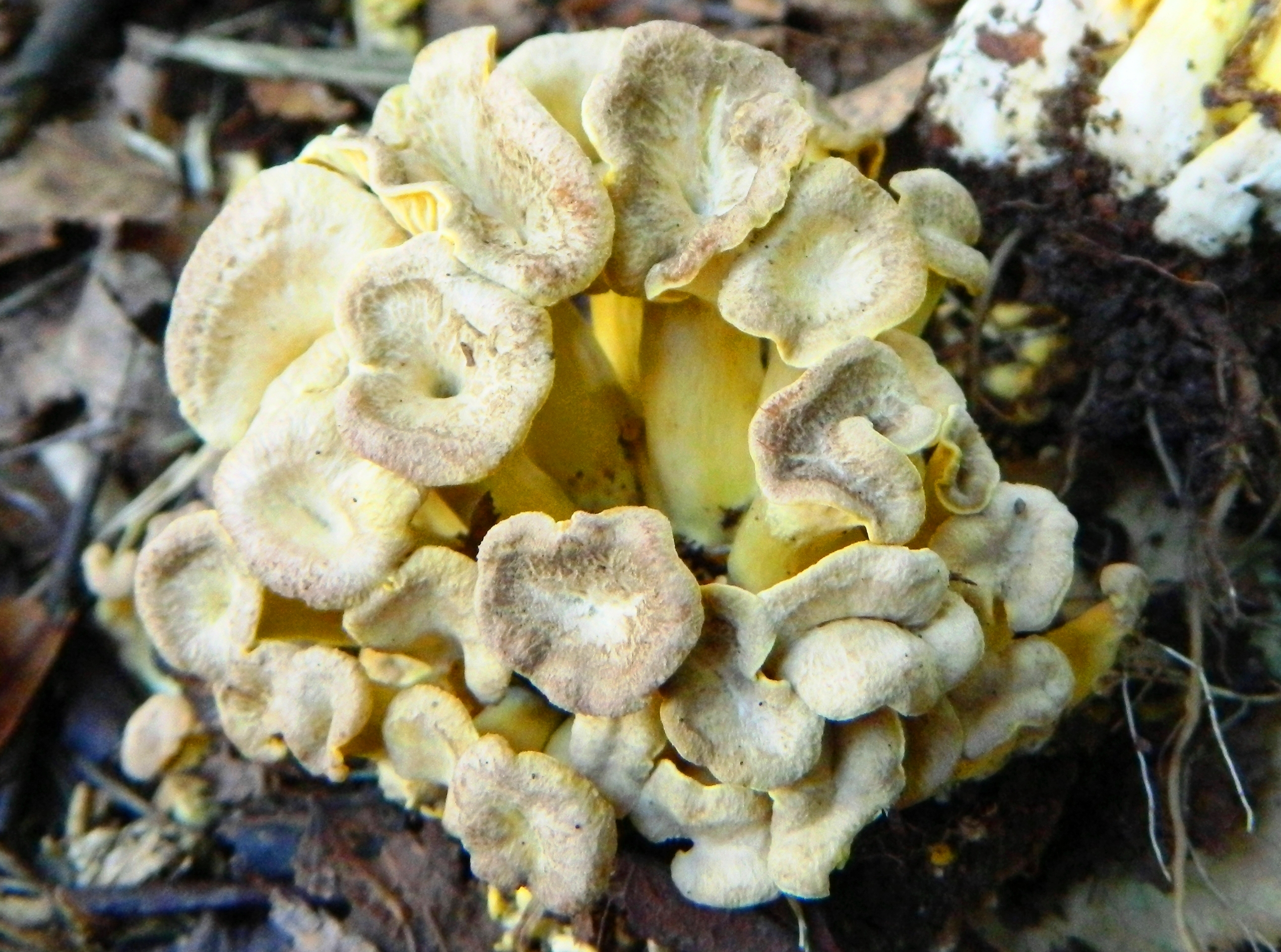 Cantharellus ianthinoxanthus (Maire) Kühner 1947 Image location: Parco Bolasco, Castelfranco, Italy This mushroom was found on a foray that Italian mycologist, Silvano Pizzardo organized with Ennio Giusti and Albert Casiero. Local area mycologist, Anna Maria Marini, identified this mushroom as This mushroom was found on a foray that Italian mycologist, Silvano Pizzardo organized with Ennio Giusti and Albert Casiero. Local area mycologist, Anna Maria Marini, identified this mushroom as Cantharellus ianthinoxanthus in the field and after the foray the ID was confirmed by Sivano Pizzardo, “Coordinator pro tempore” of the Federation Veneti (Mycology) Groups. Recognized by sight For more information about this, see the observation page at Mushroom Observer.